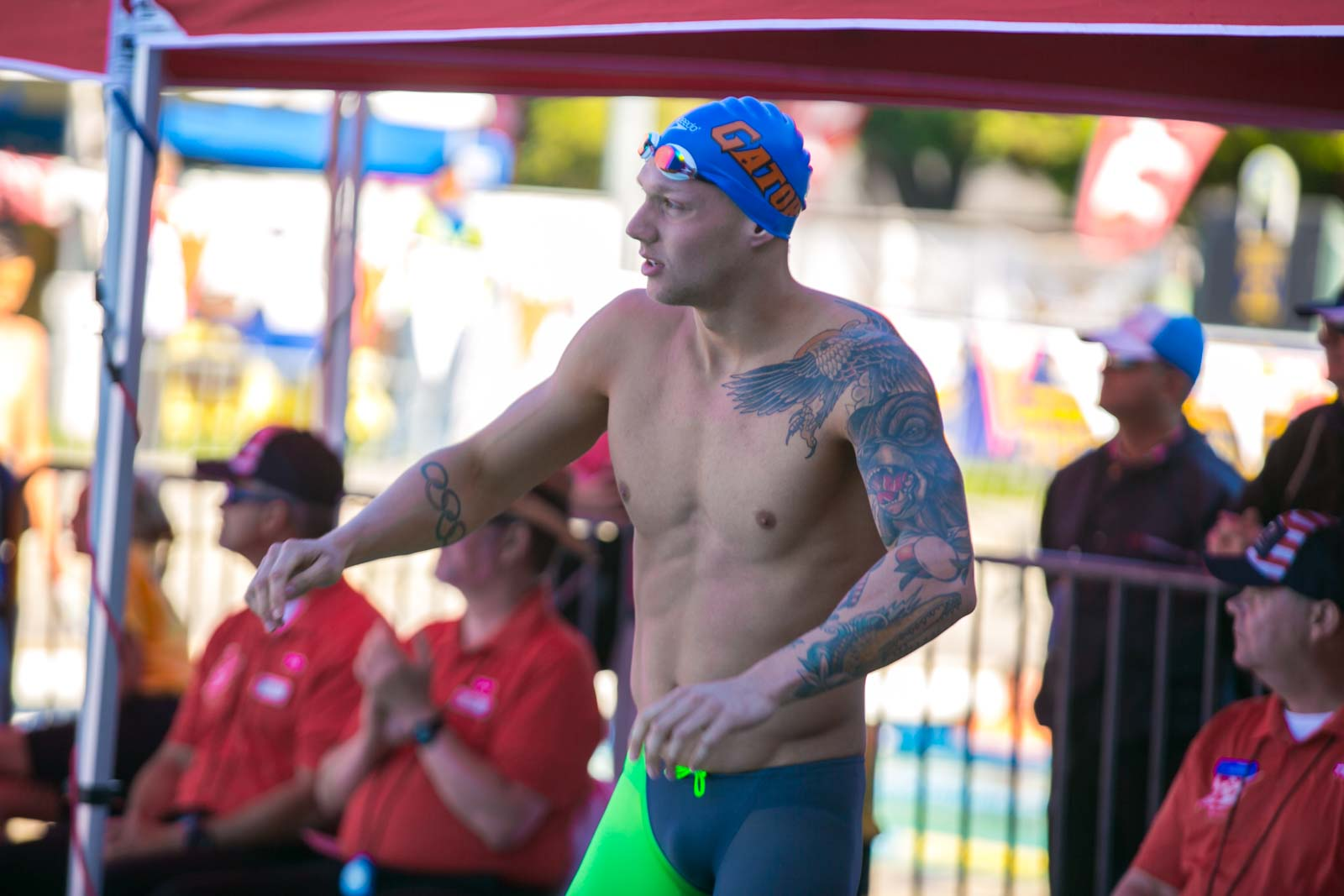 Caeleb Dressel before winning 100 fly